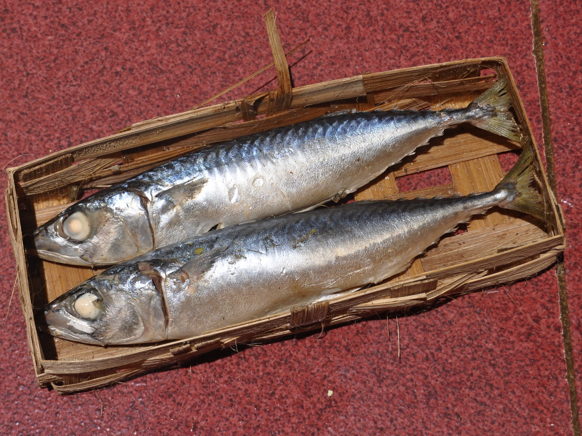 Pacific Chub Mackerel, Scomber japonicus; salted, steamed. From local market in Bogor, West Java, Indonesia.